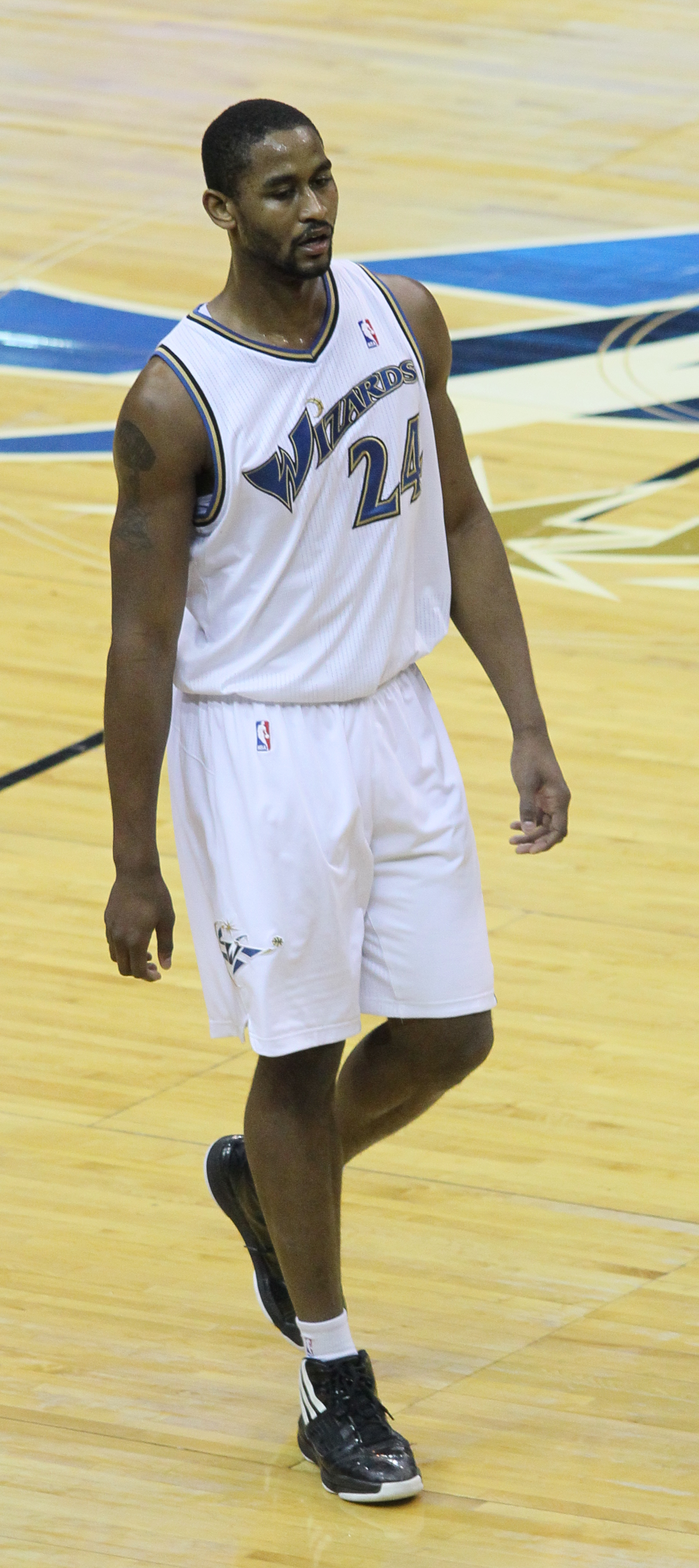 Washington Wizards v/s Miami Heat December 18, 2010